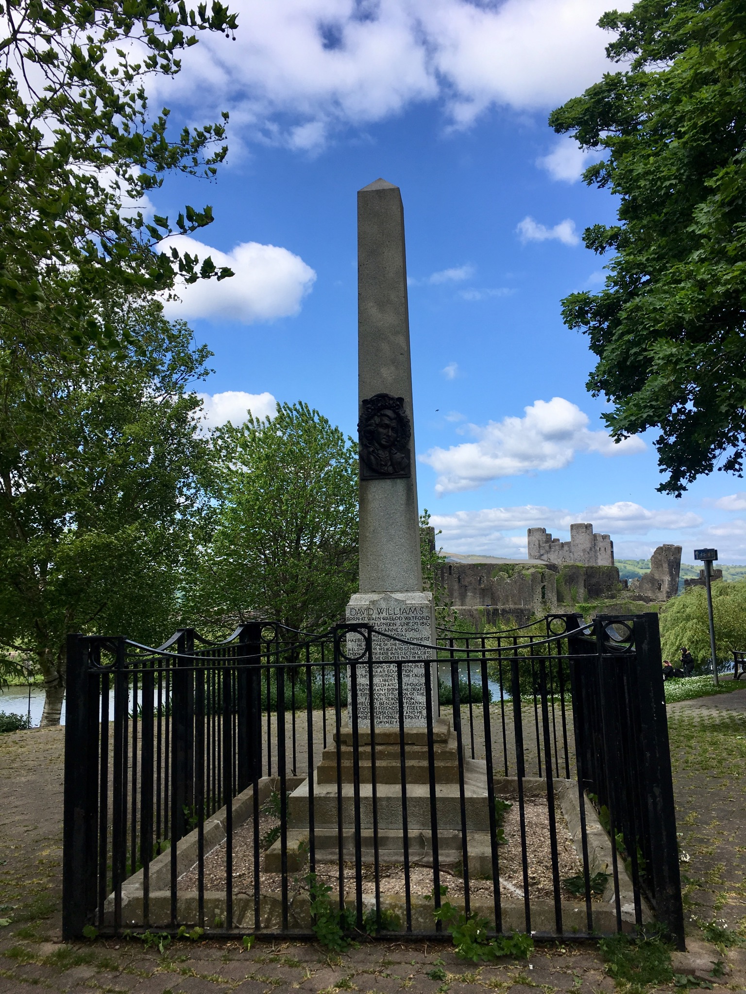 Memorial to David Williams Wikidata has entry Q29498707 with data related to this item.